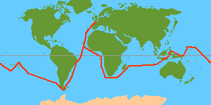 Journey of John Byron 1764 - 1766